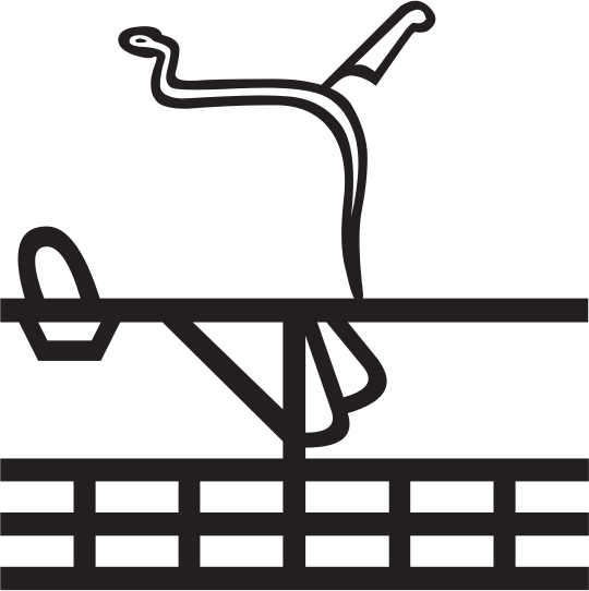 This ancient Egyptian hieroglyphic sign is the tenth nomos of Upper-Egypt. This sign was made with JSesh And then imported in The GIMP .